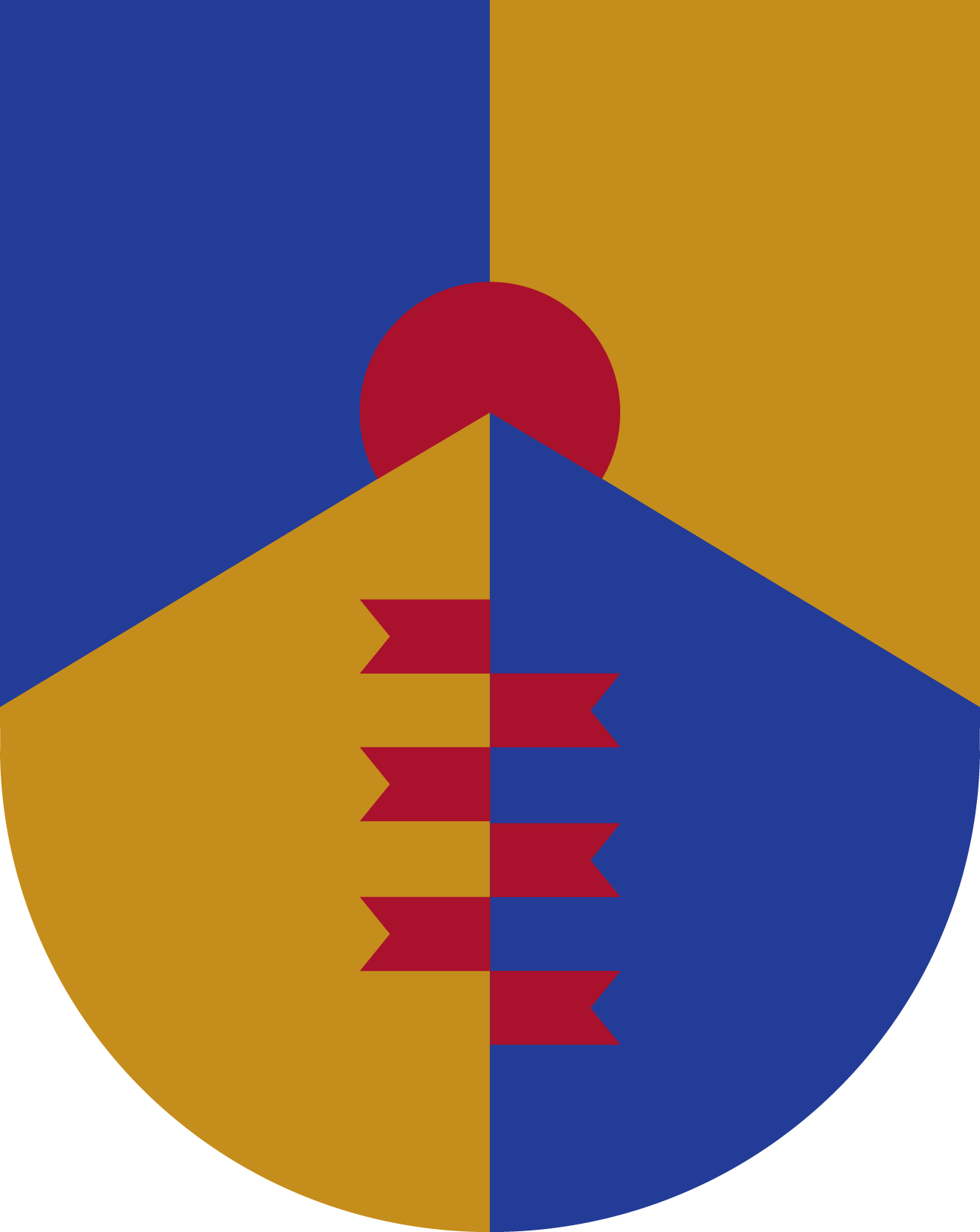 Coat of Arms of Monteceneri, Switzerland.